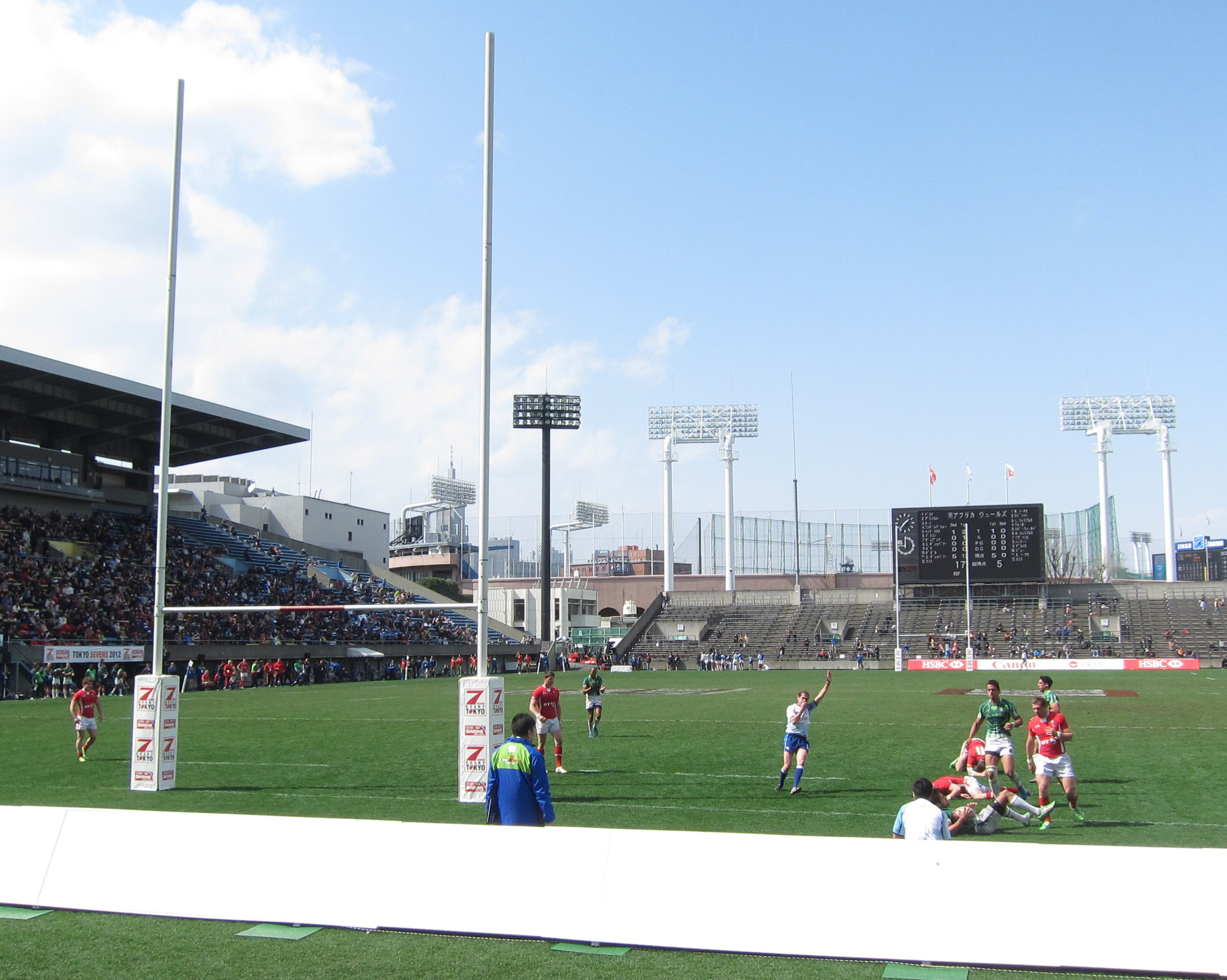 Tokyo Sevens 2012 in Chichibunomiya Rugby Stadium.